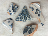 Photo taken by Kyra McCormick, Becca Leon, and LisaMarie Malischke